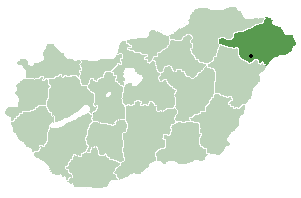 Balkány, on Szabolcs-Szatmár-Bereg Country